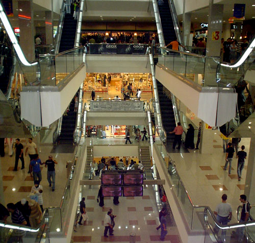 An internal view of two levels, out of 5 of Mecca Mall, Amman - Jordan.